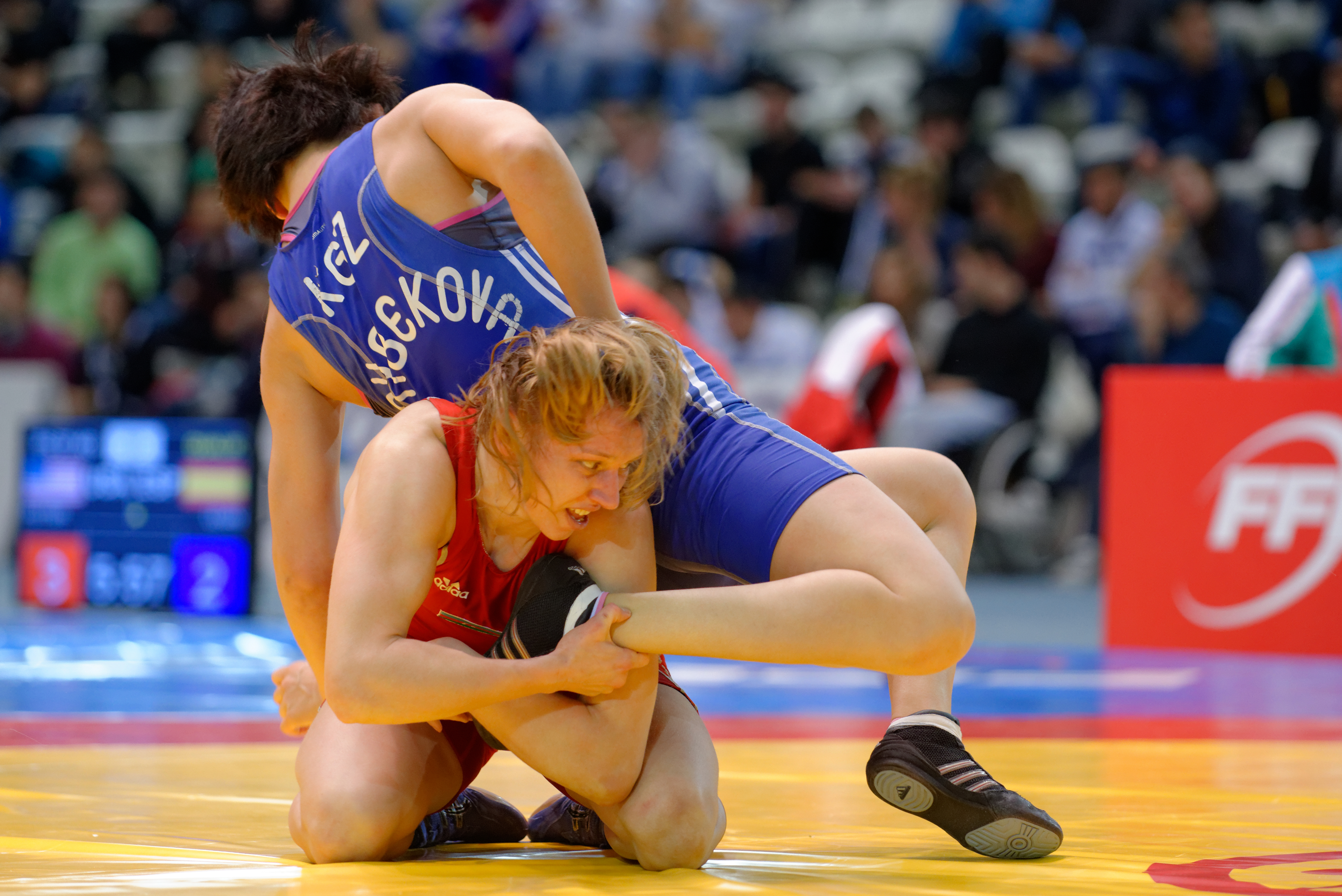 Yuliya Ratkevich of Azerbaijan (red) wrestles Aisuluu Tynybekova of Kyrgyzstan (blue) during their female wrestling 58 kg quarter-final at the Golden Grand Prix of Paris on 8 February 2014.